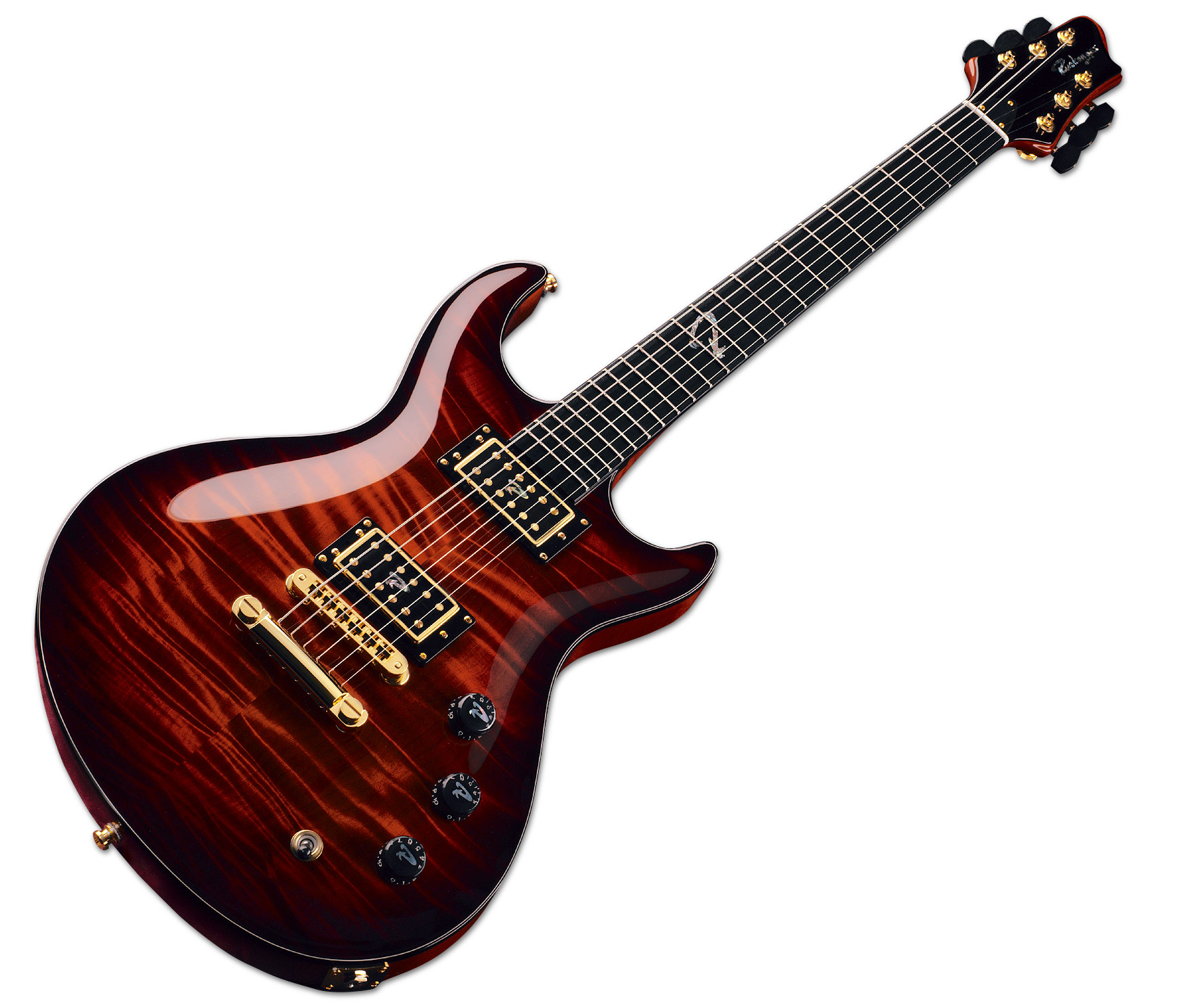 Ruokangas Duke Deluxe